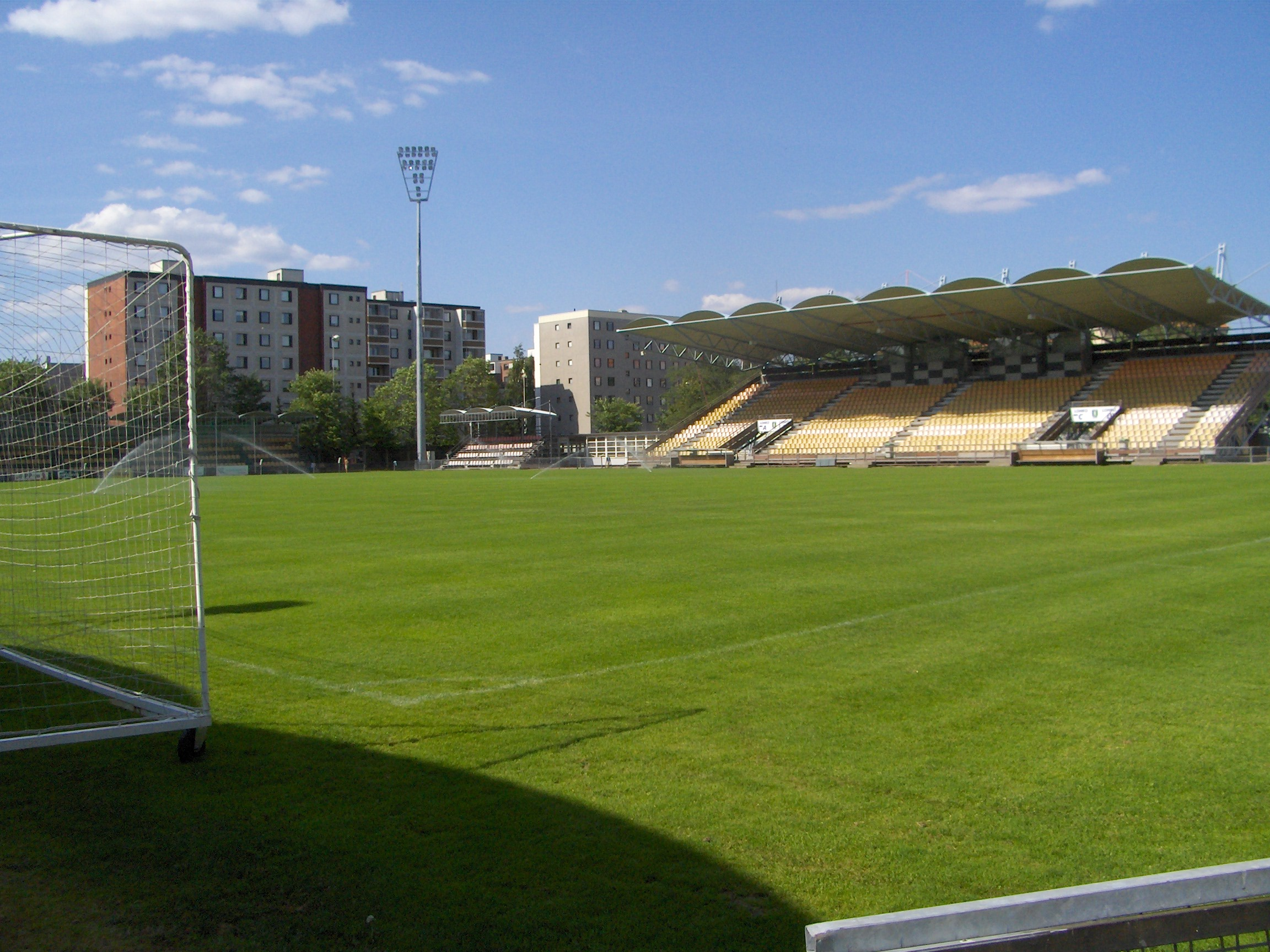 Tammela football stadium in Tampere, Finland